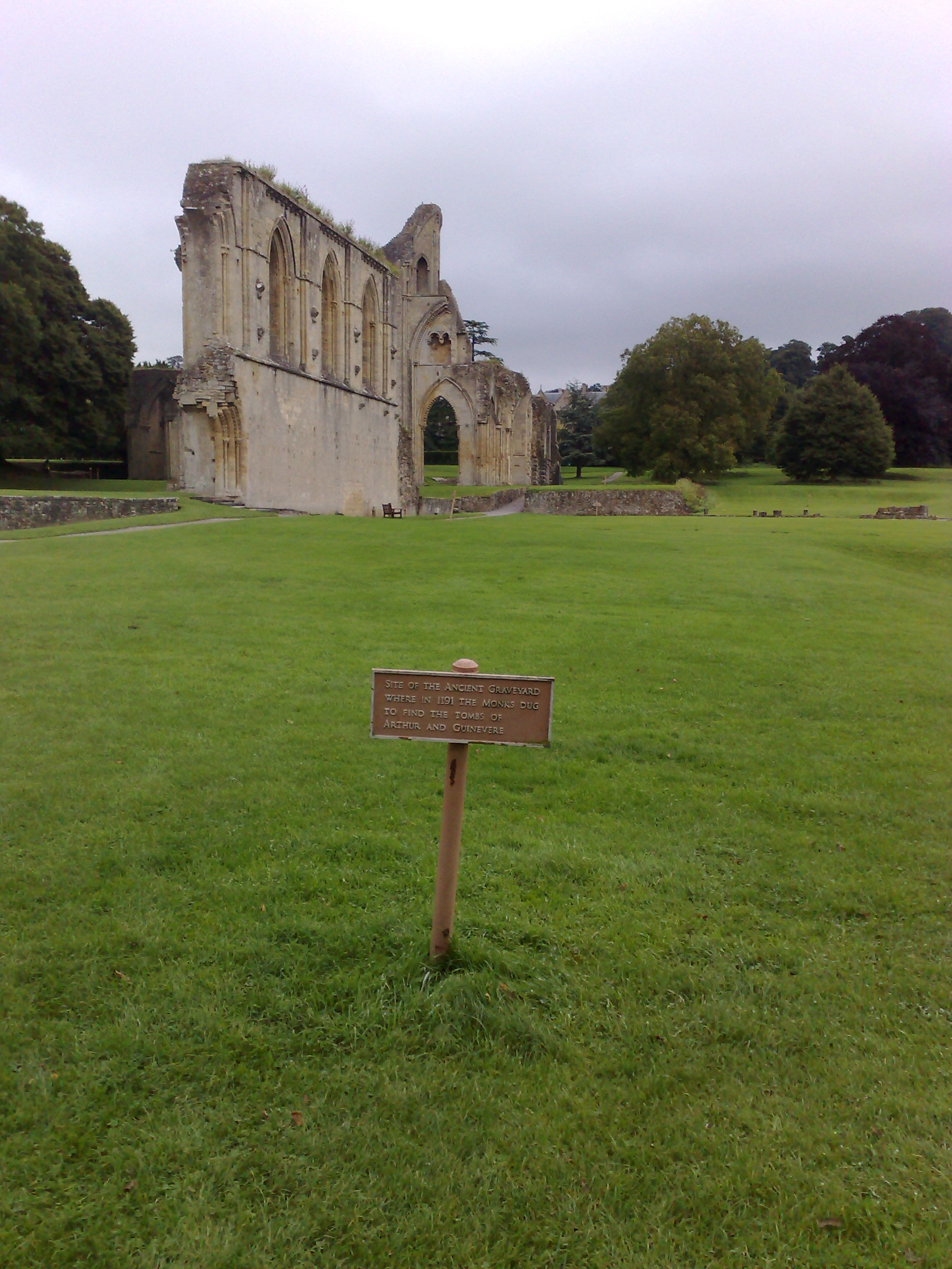 The site where Arthur's body was discovered in 1191.